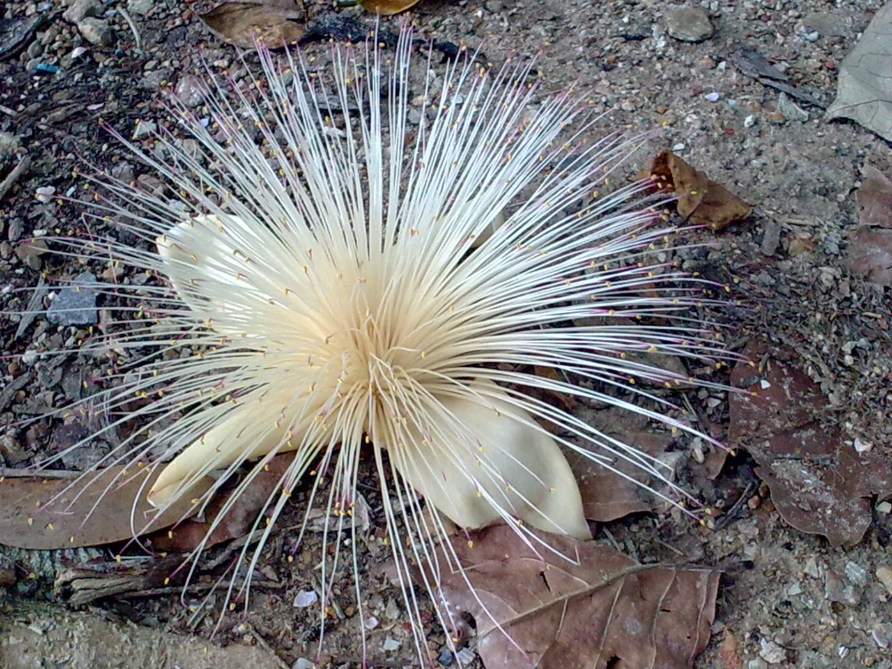 Barringtonia asiatica flower in Krabi, Thailand